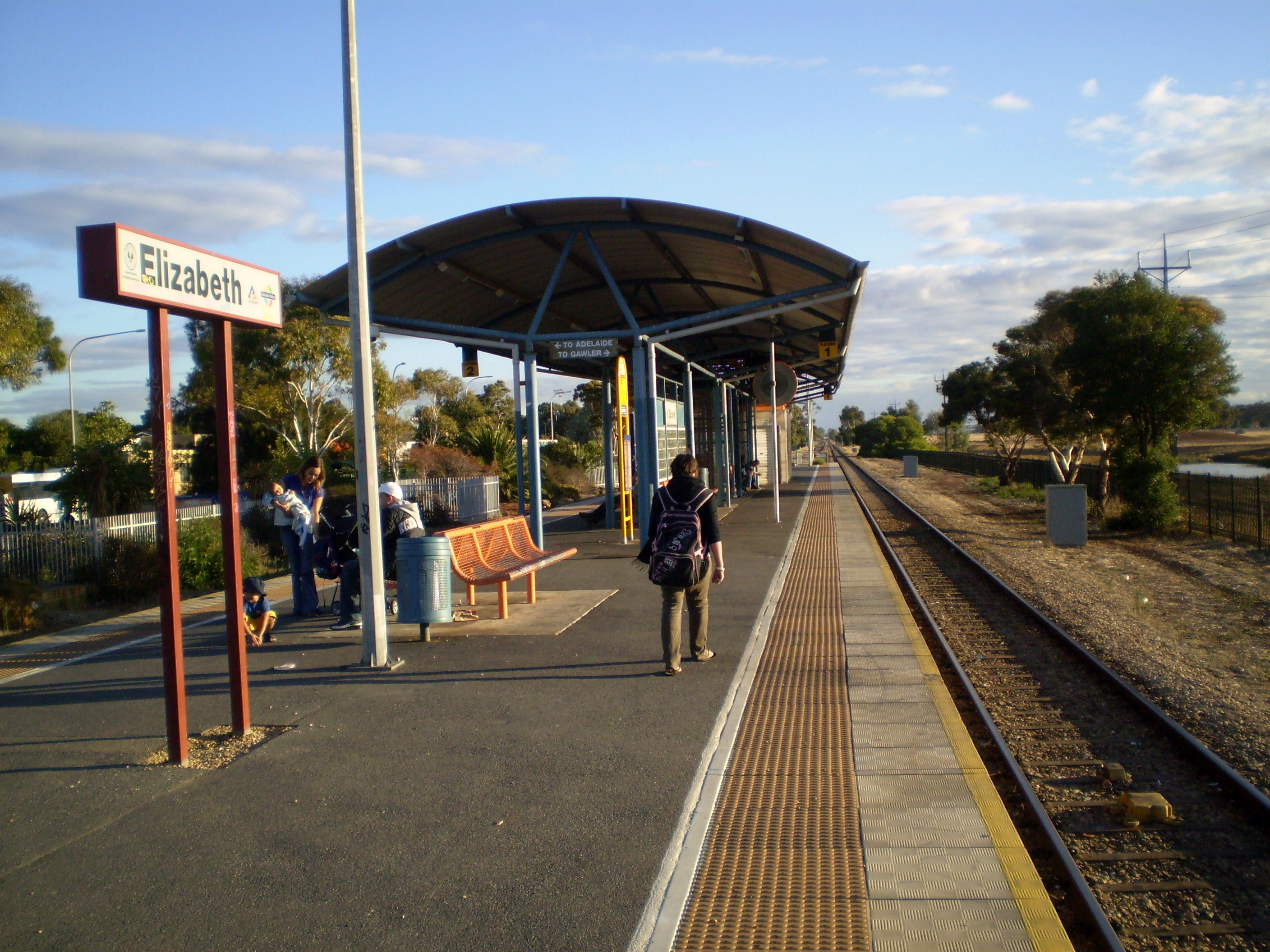 Elizabeth Railway Station in March 2008.